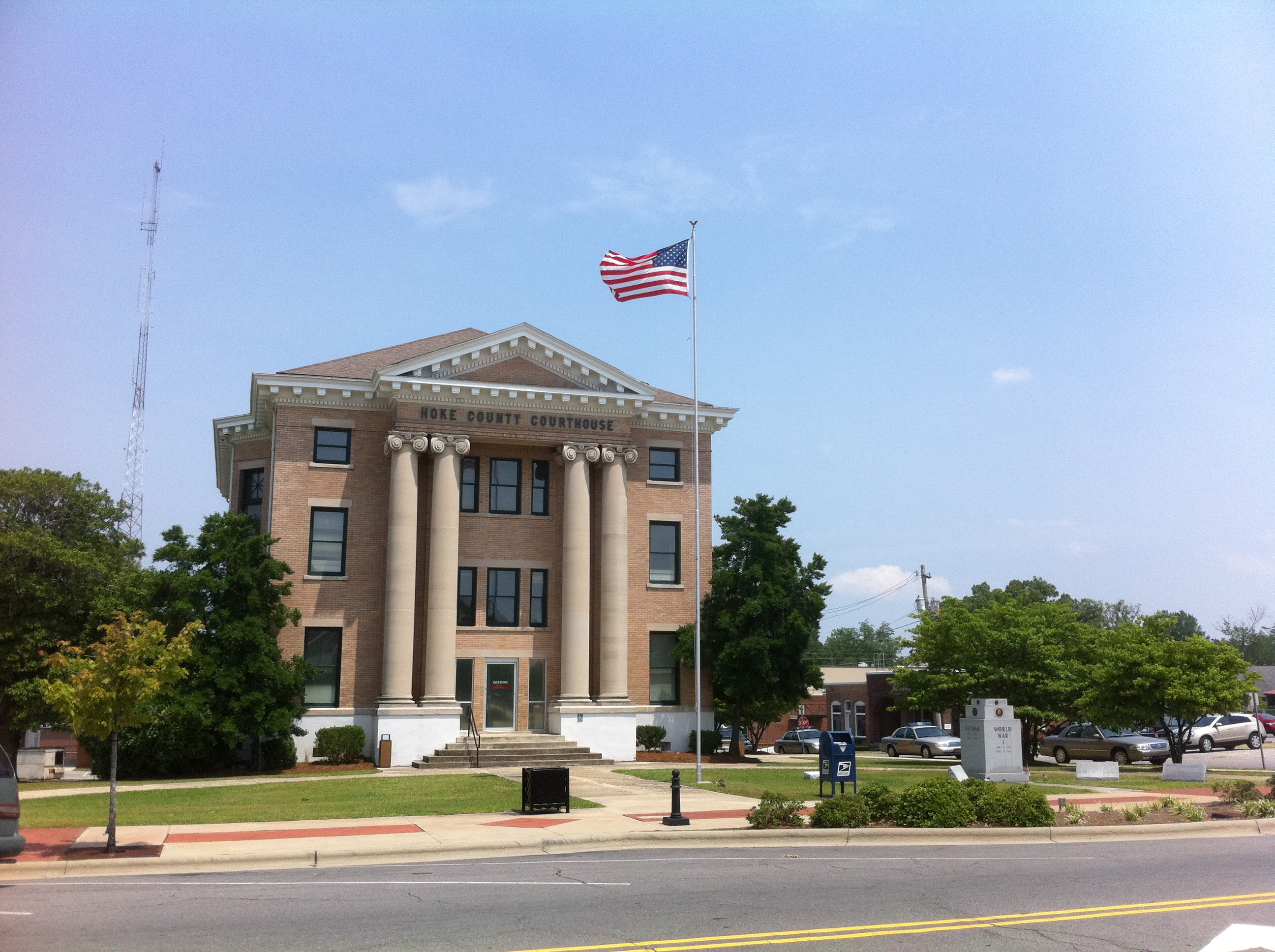 Hoke County Courthouse and the War Memorial monument in Raeford, North Carolina.